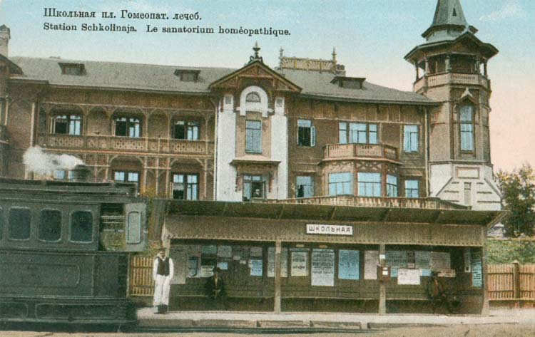 Railway station Shkolnaya in pre-revolutionary card